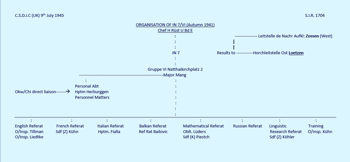 Organization chart of German Inspectorate 7 Sig Int organization during Autumn 1941 for Group VI.